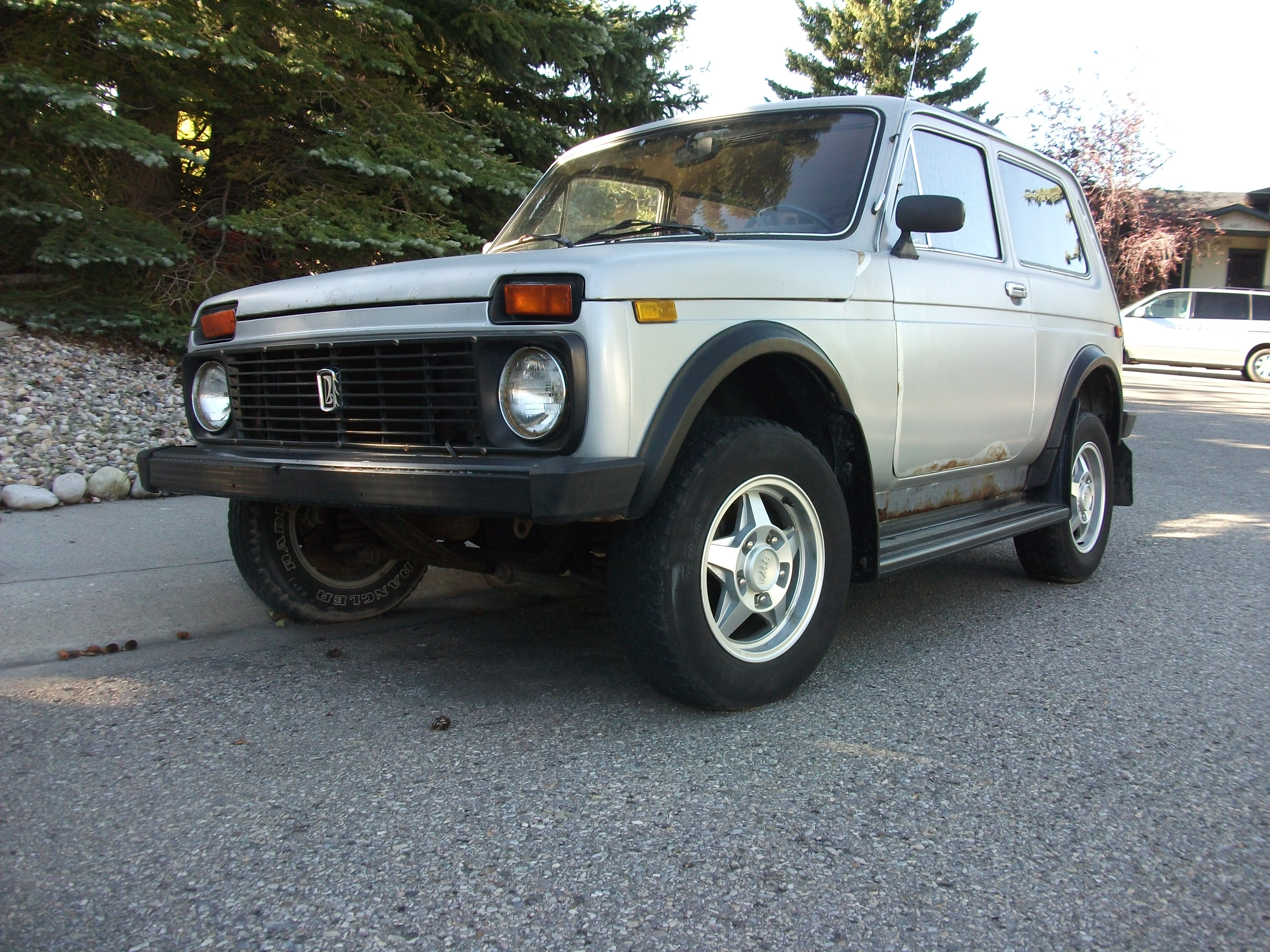 A Lada Niva 1600 Cossack in silver. Looks pretty good in silver but I don't remember seeing another in this colour. I wonder if its a repaint. You can tell its a Cossack trim by the BWA alloy wheels, roof rack, fender flares and nicer interior. Its got the earlier style tailgate so 1.6L carburetor engine.